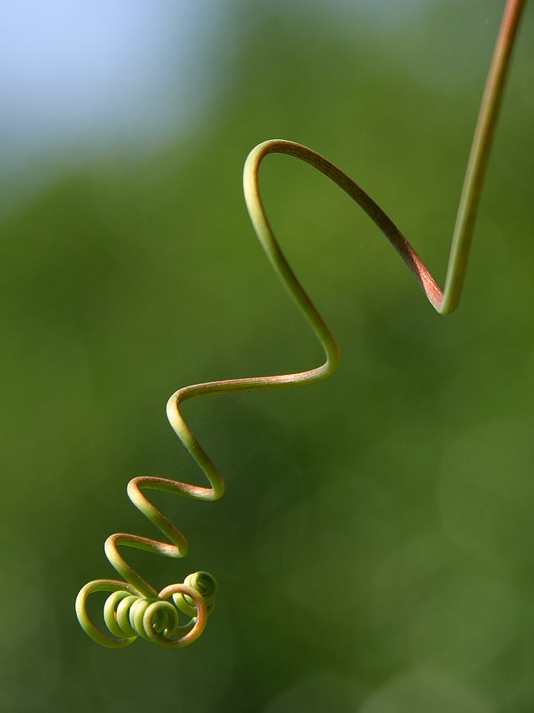 Vine.